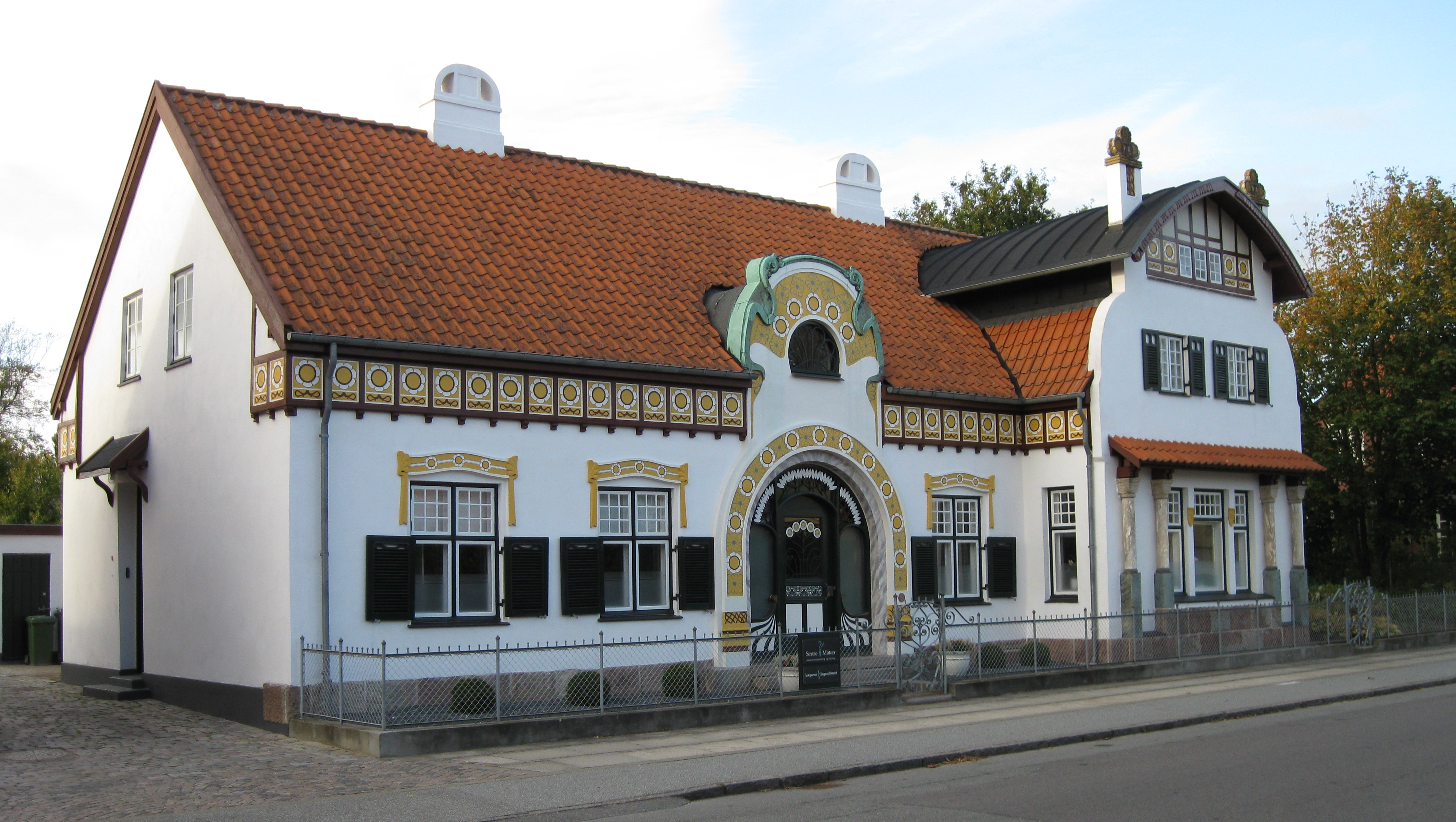 Jugendhuset, Varde, Denmark